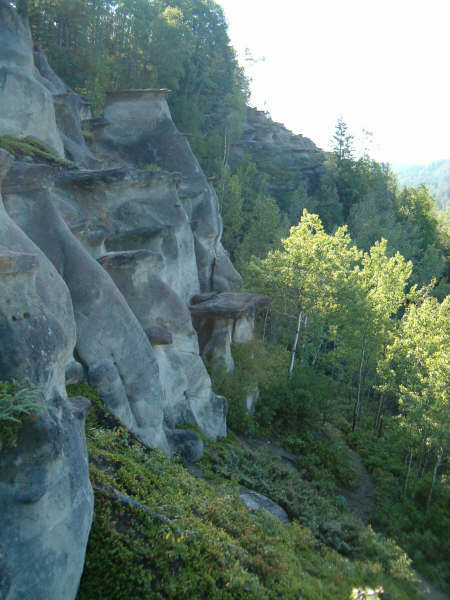 Erik Lizee - Author